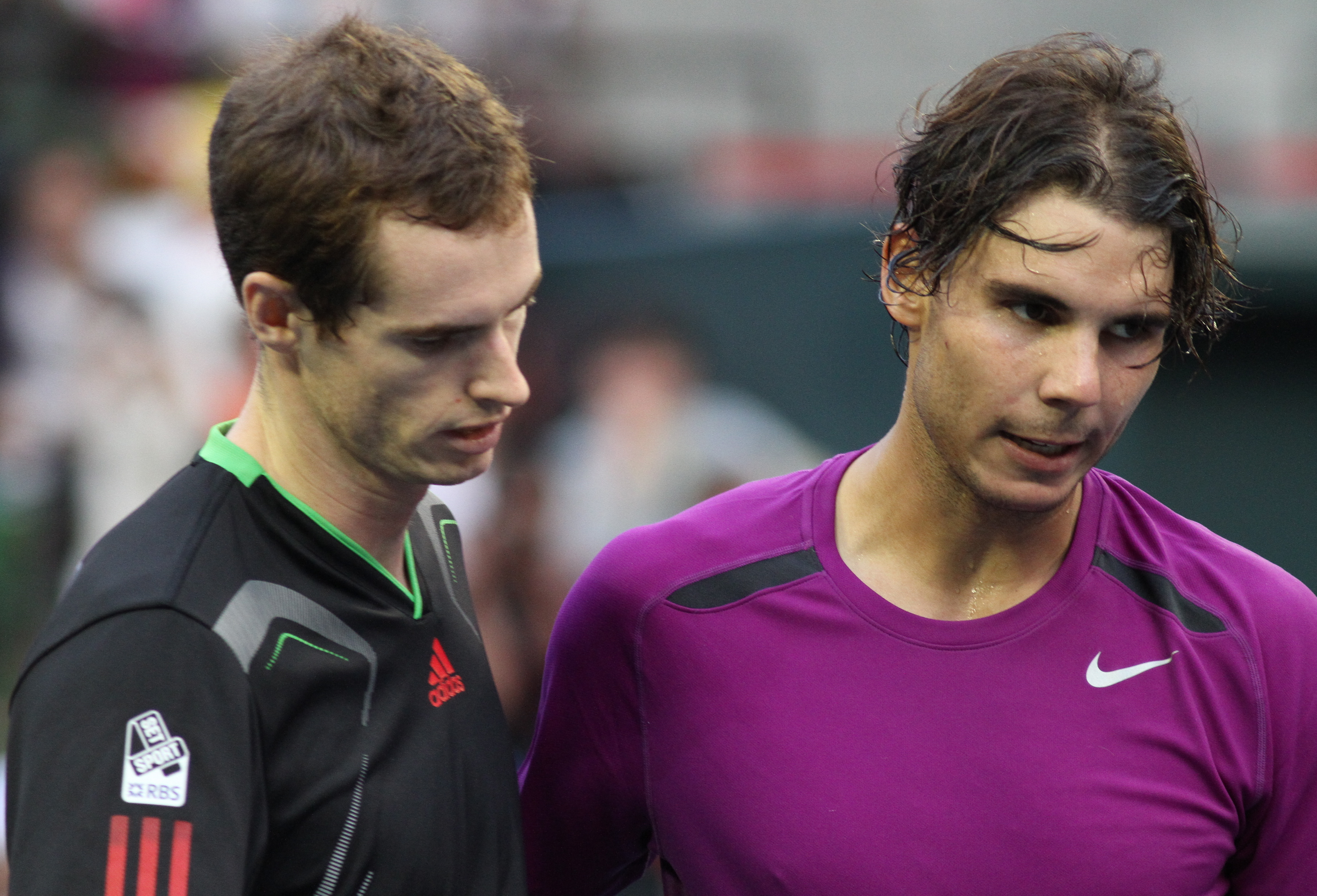 Murray and Nadal at the net.